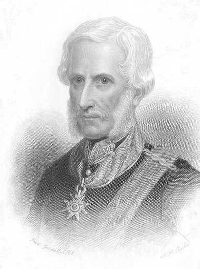 Portrait engraving